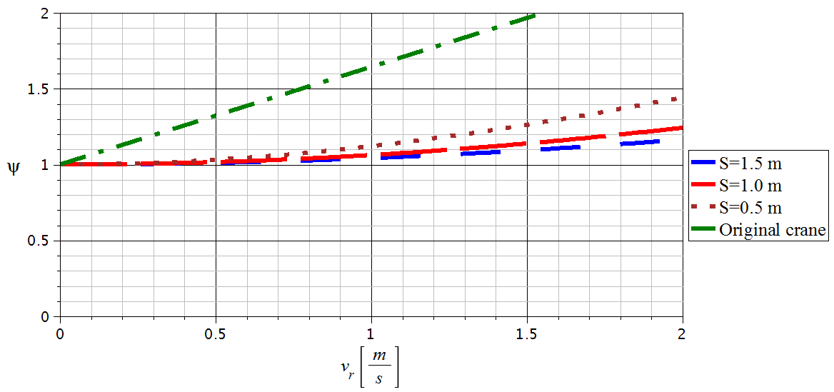 Dynamic load versus relative velocity for a standard crane and cranes with various shock absorbers stroke lengths.